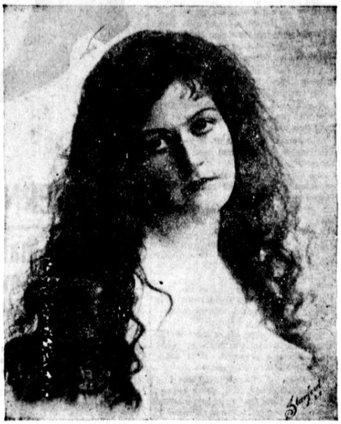 Photograph of American actress Dororthy Tennant appearing in October 18, 1902 issue of Honolulu Evening Bulletin.